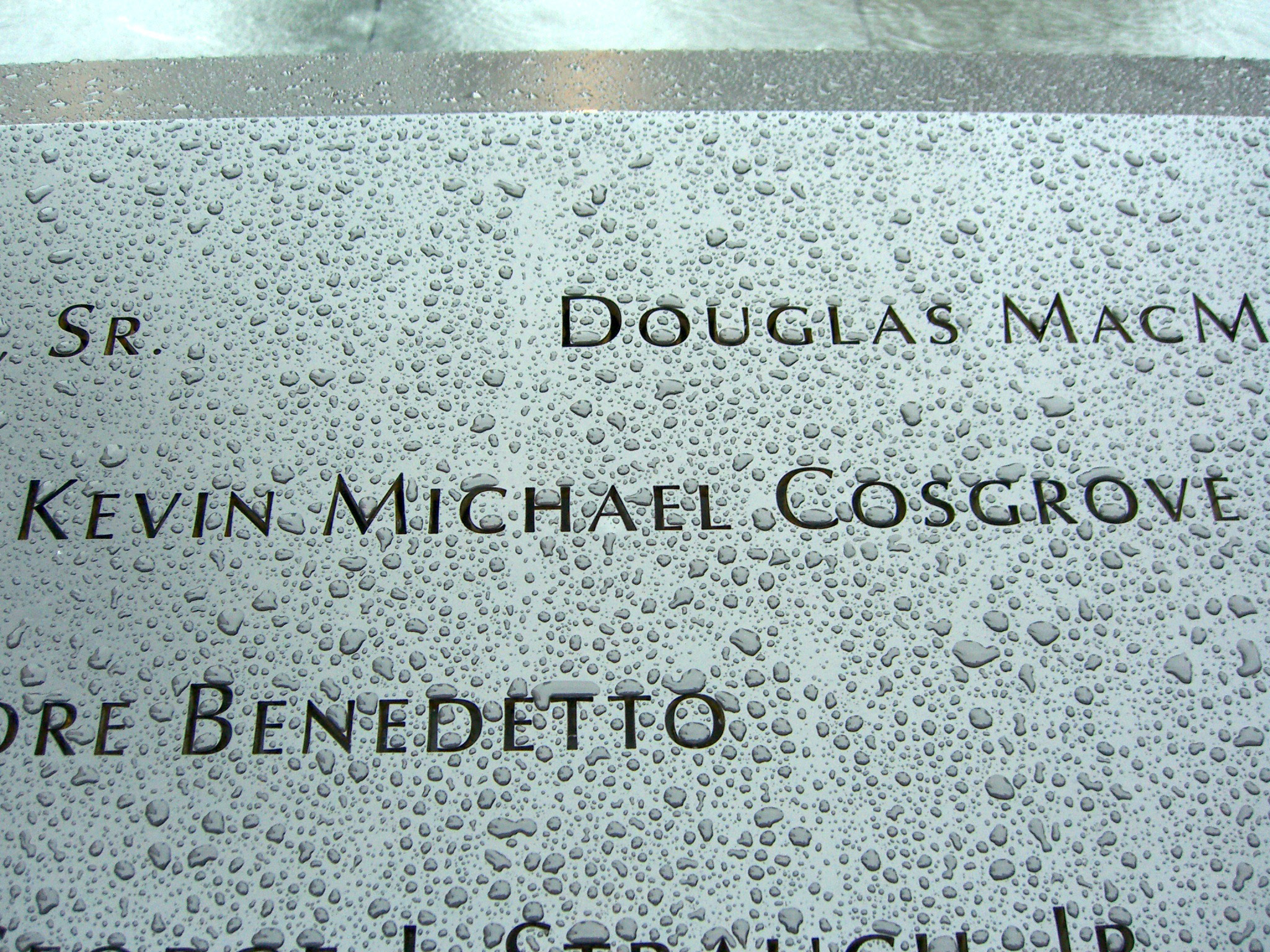 The name of Kevin Cosgrove is seen among those of other people inscribed on bronze panel S-60 of the South Pool of the National September 11 Memorial in Manhattan, as seen on December 6, 2011. This photo was created by Luigi Novi. If you have any questions, you can contact me by sending me an email or User talk:Nightscream